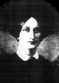 Copy (black) of a eleonore vergeot picture. (paint)